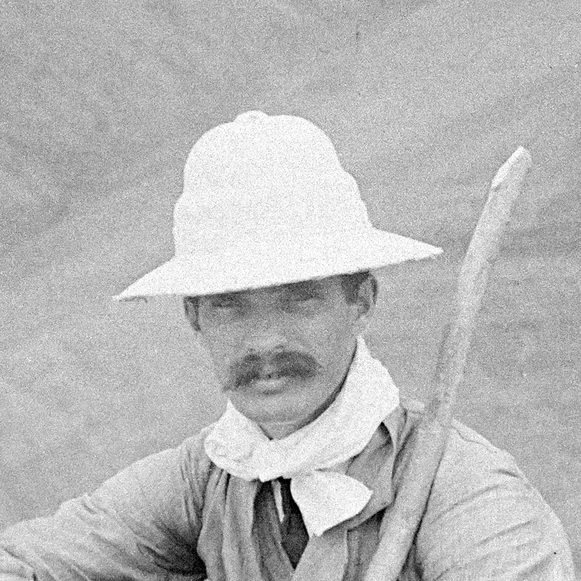 Tempest Anderson is in the middle with the volcano behind.